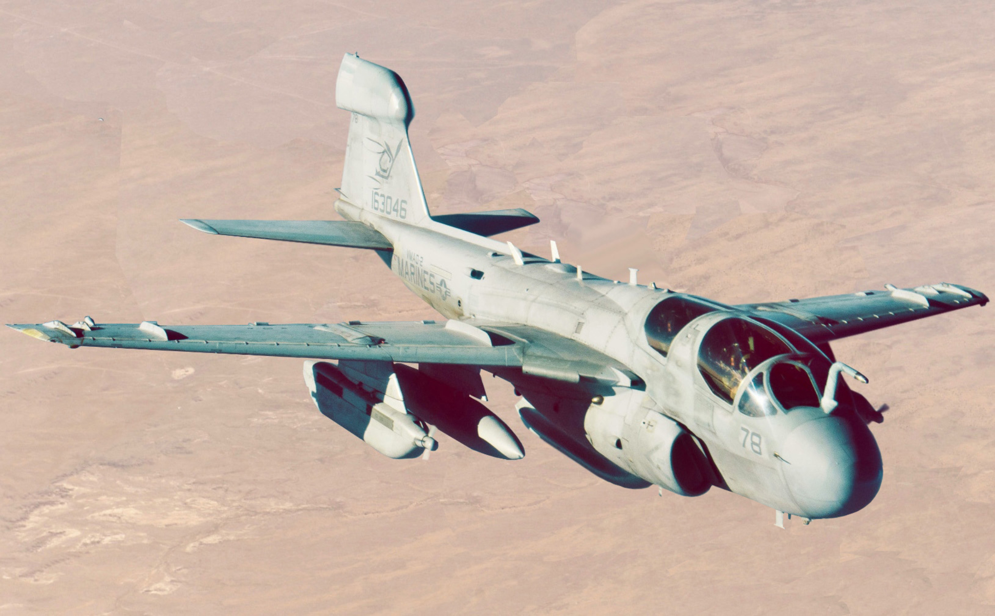 An altered version of this file